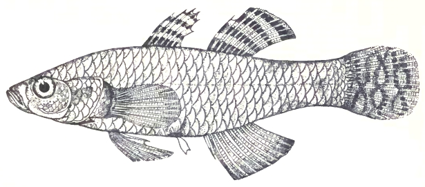 Hypseleotris pangel Herre 1927